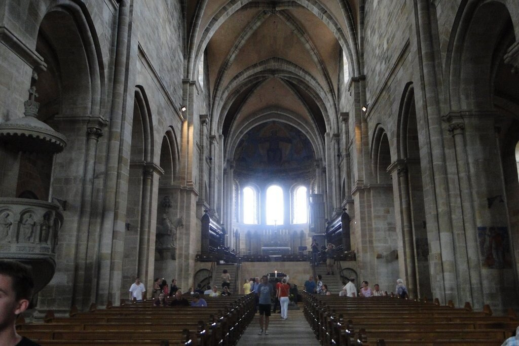 Interior view of the cathedral in Bamberg